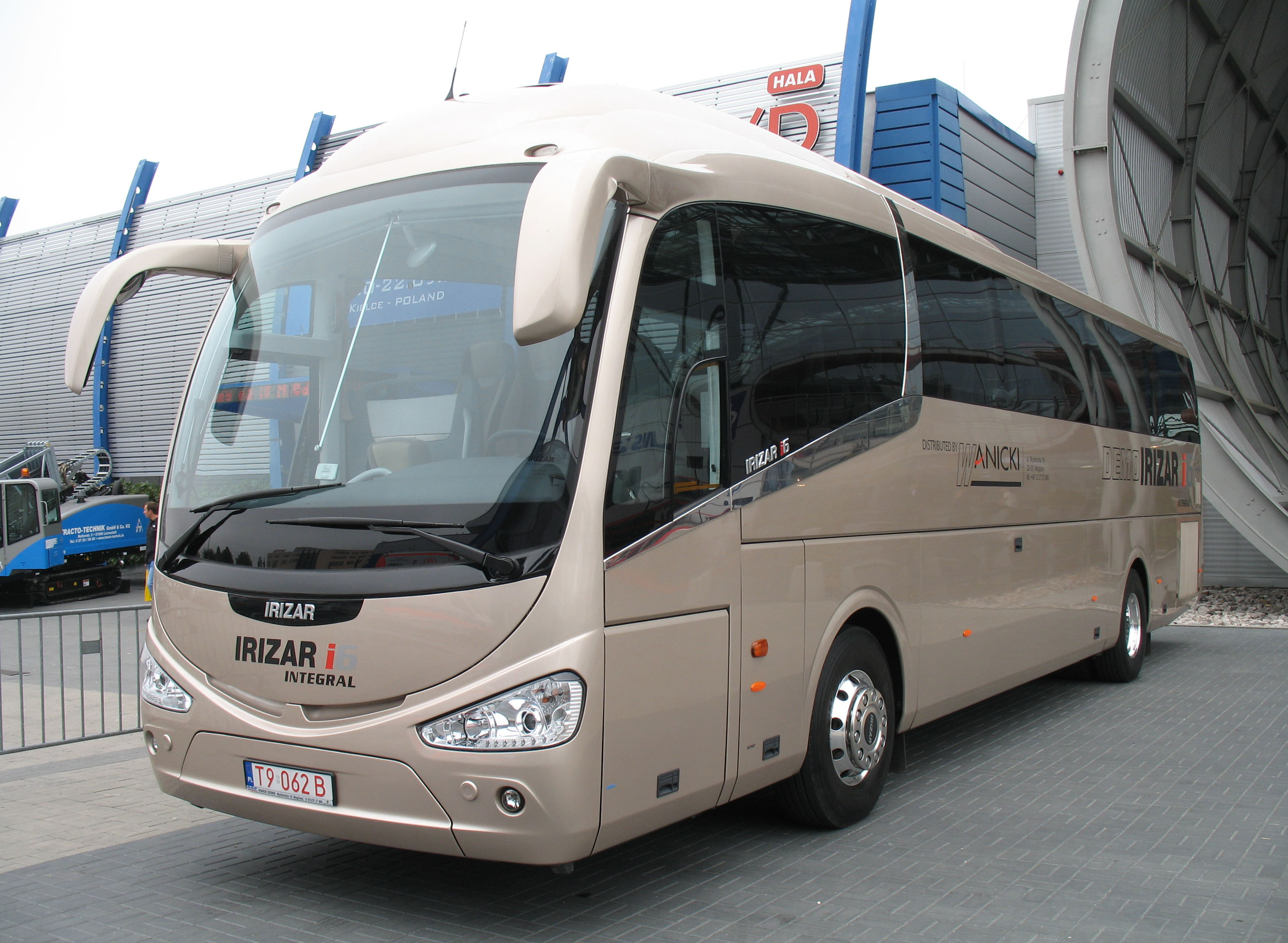 Irizar i6 Integral coach (reg. T9 062B) in Kielce, Poland. Built 2011. Transexpo 2011.